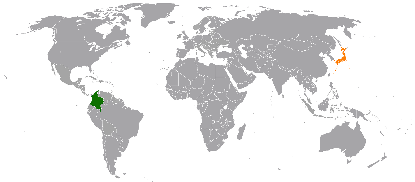 Locator map of Colombia and Japan